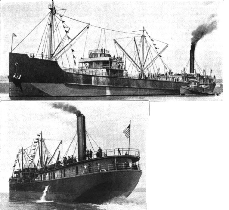 Photograph of the SS Faith, the first ship built of concrete in the United States, soon after launch in 1918